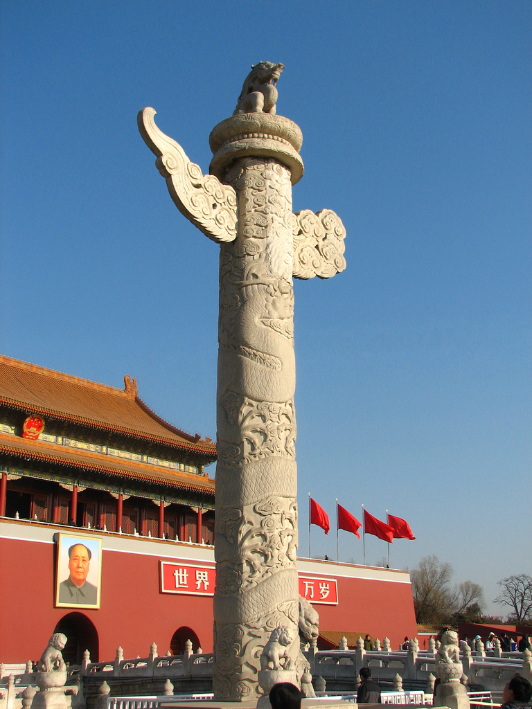 The huabiao, stone column at the Tiananmen Gate in Beijing